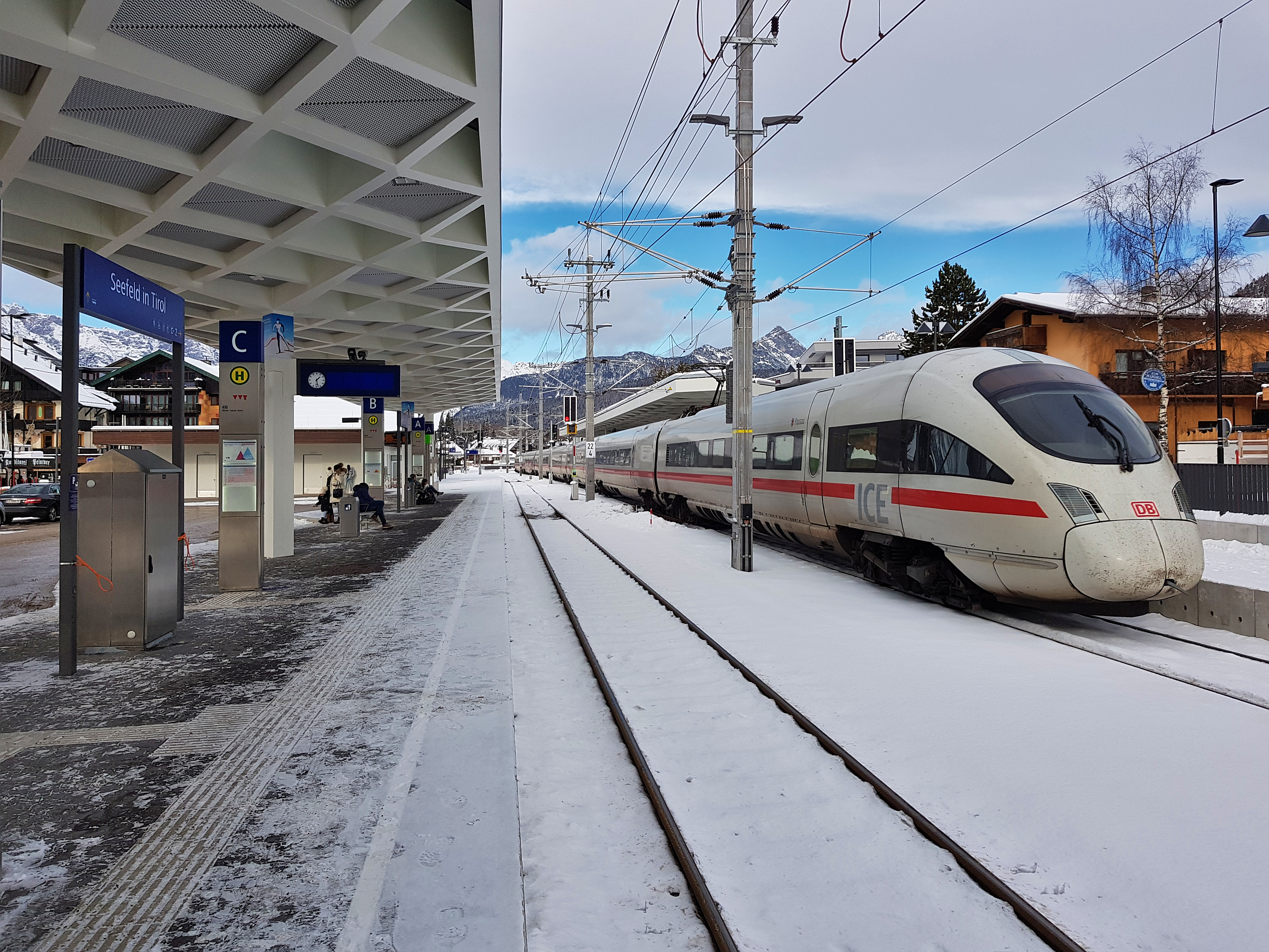 ICE 1222 Karwendel im Bahnhof Seefeld in Tirol nach dessen Umbau 2017–2018.